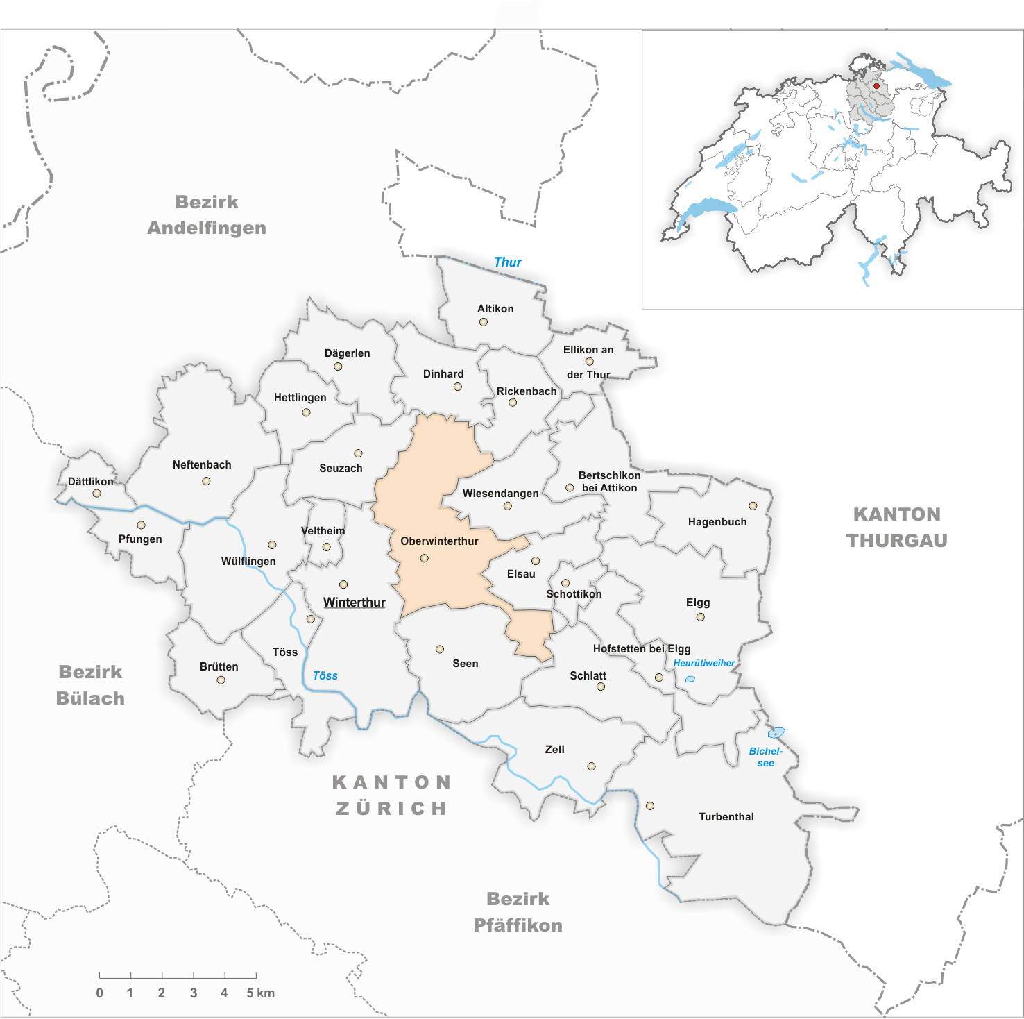 Municipality Oberwinterthur